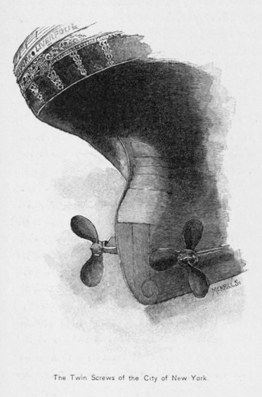 Detail of SS City of New York Propellers